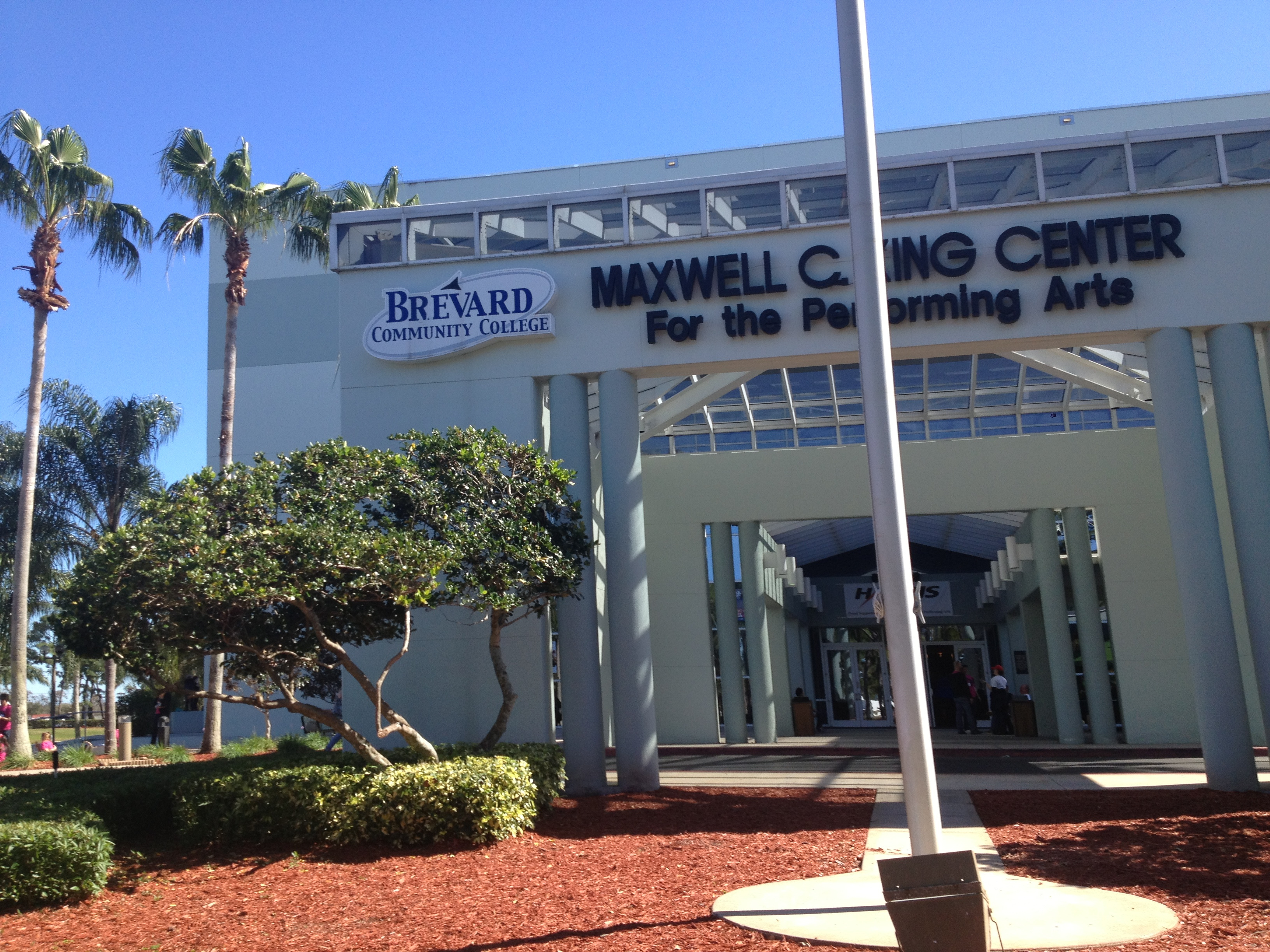 The Maxwell C. King Center for the Performing Arts